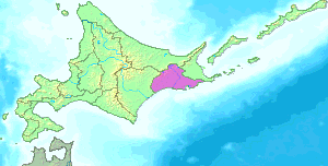 Kushiro shinkokyoku subpref